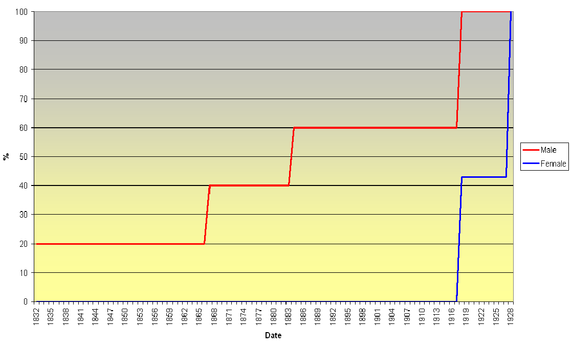 Voting by Gender in the UK. The dates cover the major Reform acts. I've used the following Wikipedia articles as my sources: Reform Act 1832 Reform Act 1867 Ballot Act 1872 Reform Act 1884 Reform Act 1885 Reform Act 1918 Reform Act 1928